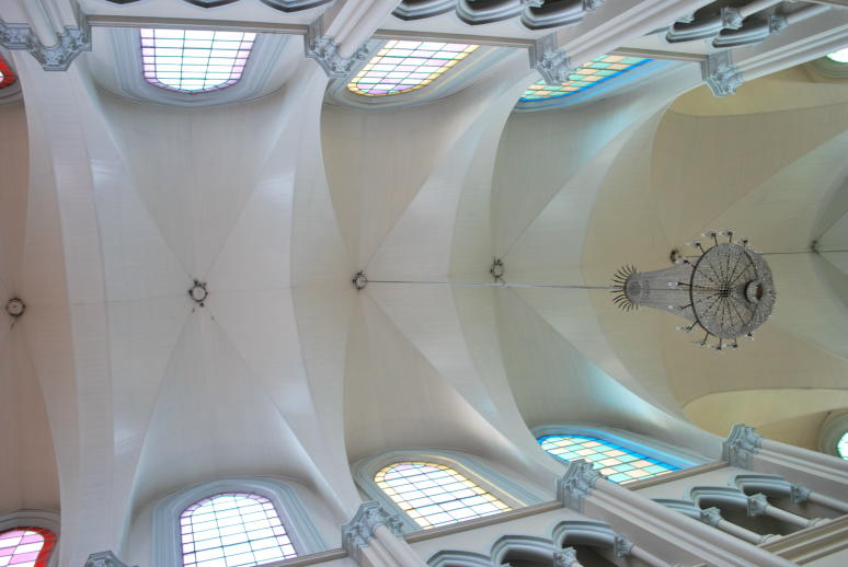 Wooden, neo-gothic vaults, Iglesia de Coronado, Costa Rica.